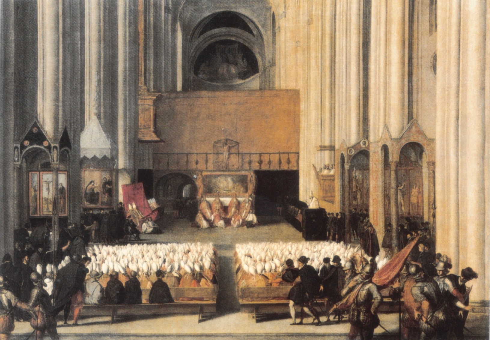 Specular version of File:Tridentinum.jpg